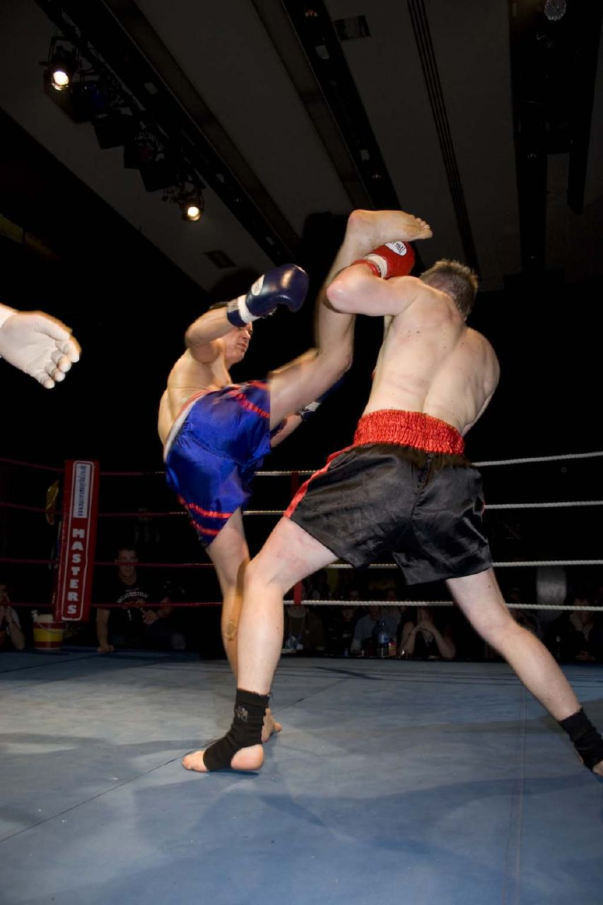 Muay Thai: High kick and block. Kieran Shangnessy (Master A's, blue trunks) vs. Andy Snell (Kings gym, black trunks). Picture taken at the 2006 "March Fight Night" of Master A’s Muay Thai school, Middleton Civic Centre, Manchester, UK. Photograph originally published on .